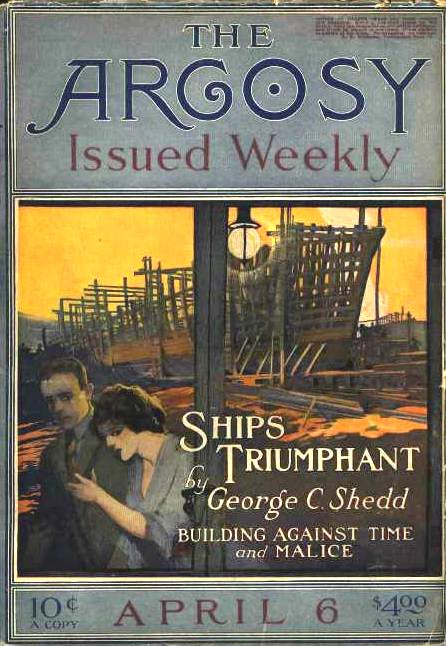 The Argosy, April 6, 1918